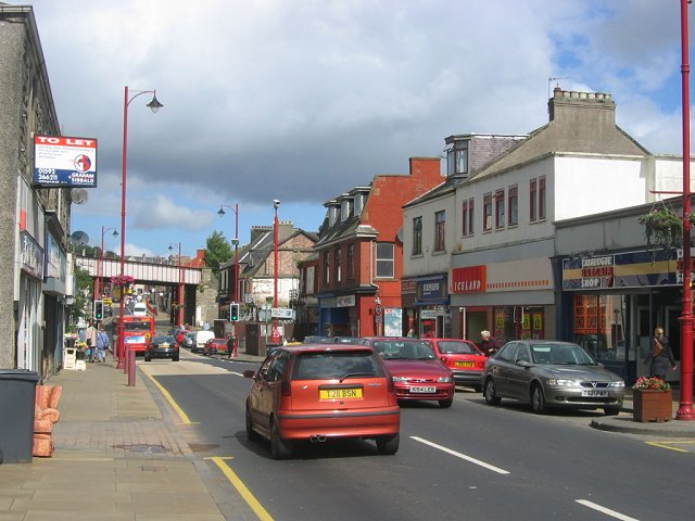 Downtown Cowdenbeath. The shopping street looking north. Once a mining town.